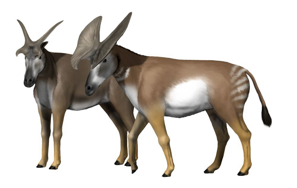 Life restoration of Prolibytherium magnieri, with female on left and male on right.